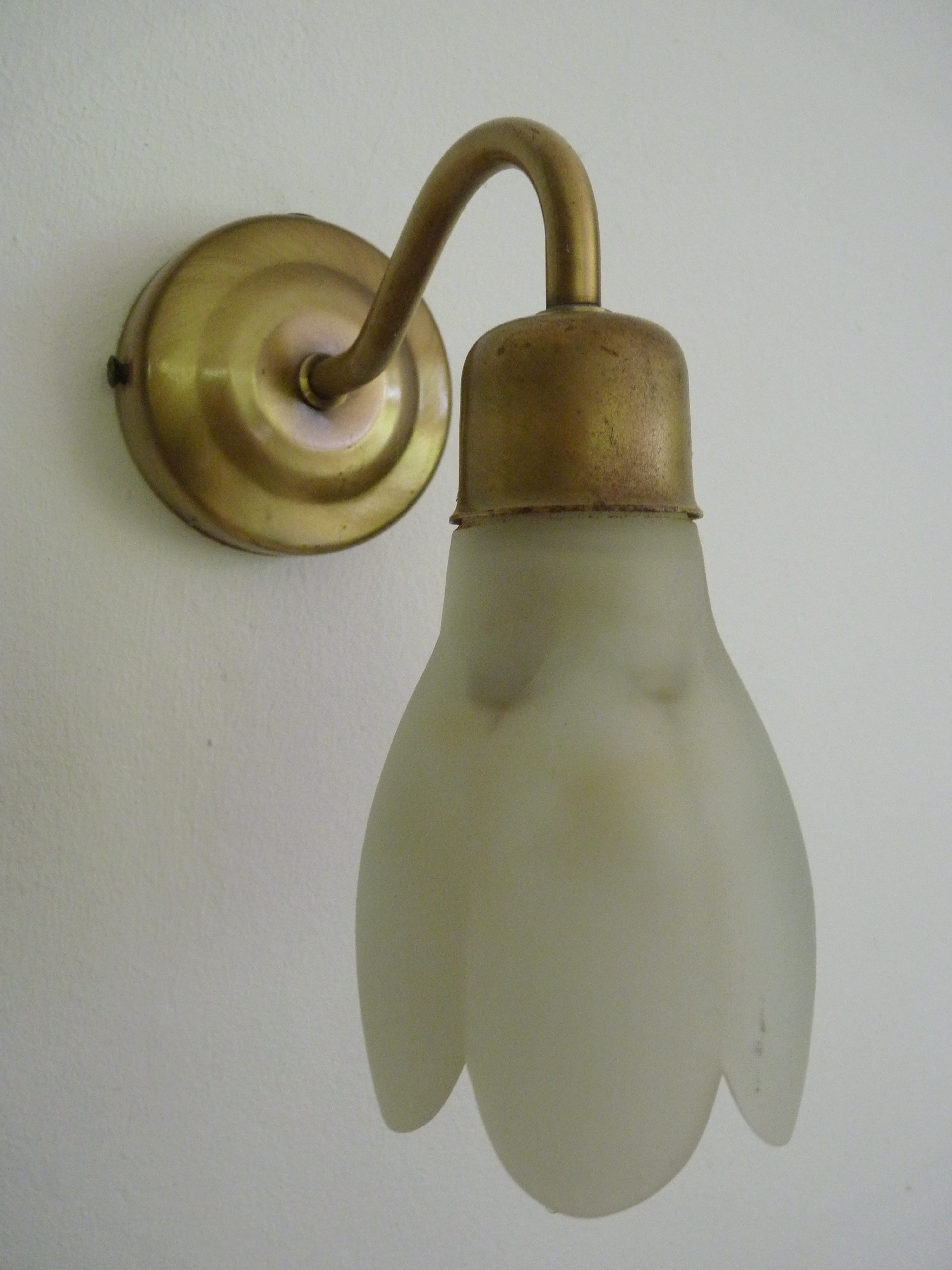 A brass 1950s-1960s wall lamp with white tulip-shaped glass